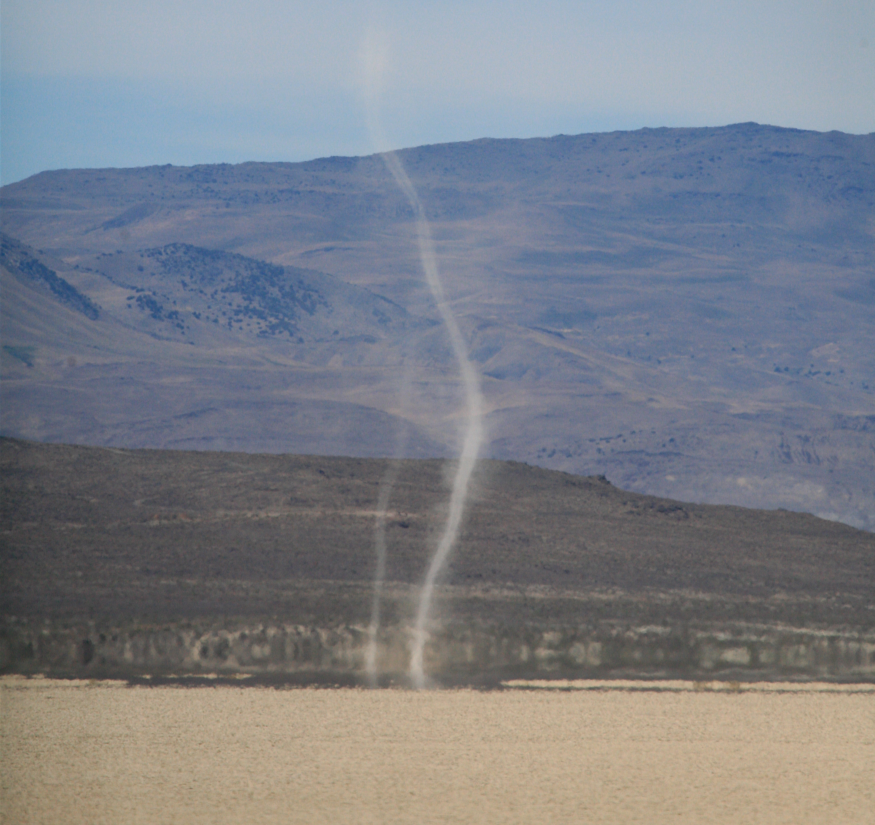 Dust devils form when extremely hot air near the surface rises quickly through a small pocket of cooler low pressure air above it. If conditions are just right, the air may begin to rotate. As more hot air rushes in toward the developing vortex to replace the air that is rising, the spinning effect becomes further intensified and self-sustaining. A dust devil, fully formed, is a funnel-like chimney through which hot air moves both upwardly and circularly. Eventually the hot air will cool and descend back through the center of the vortex. This cool air returning acts as a balance against the spinning hot air outer wall and keeps the system stable. (from wikipedia )